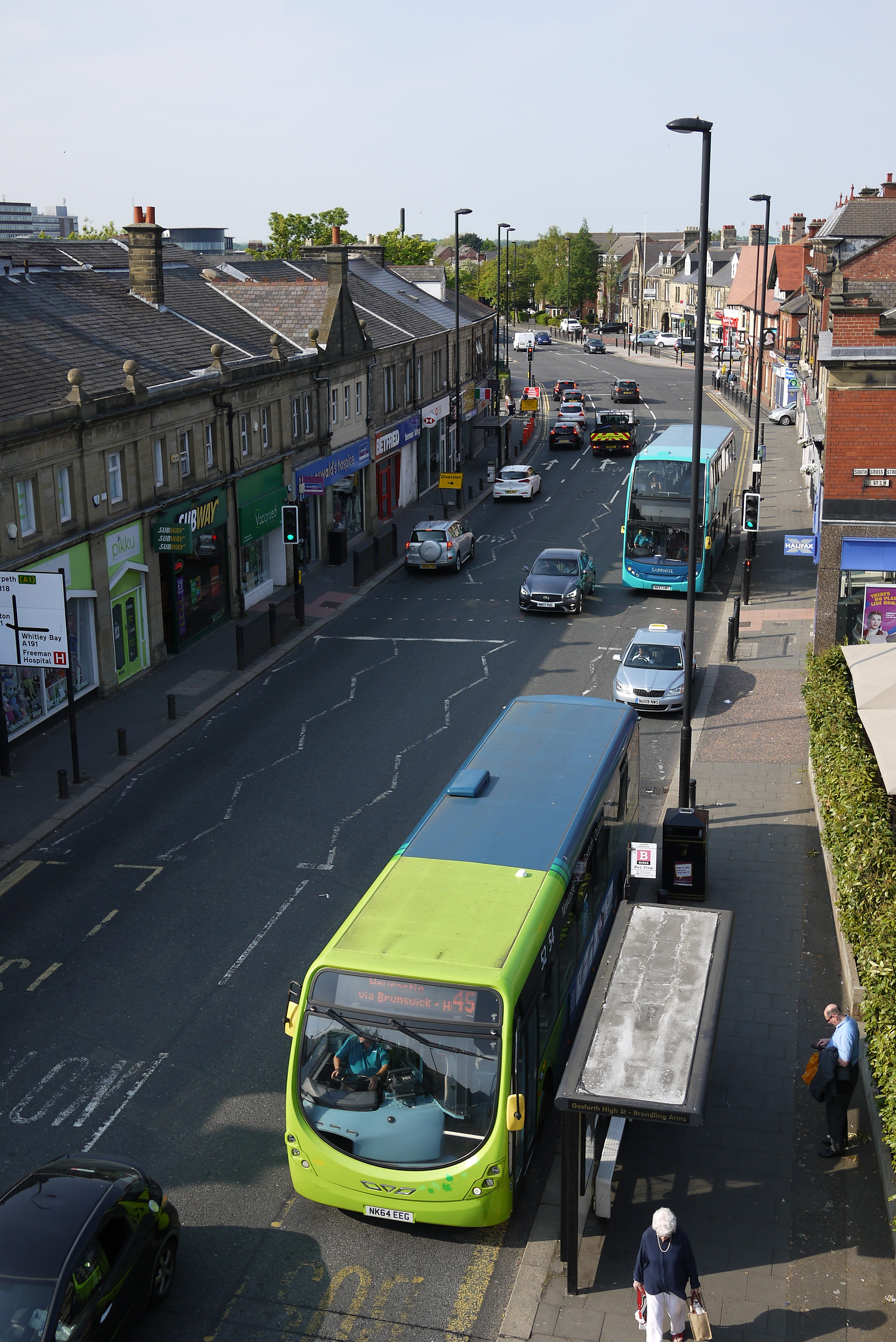 Traffic on Gosforth High Street, Newcastle